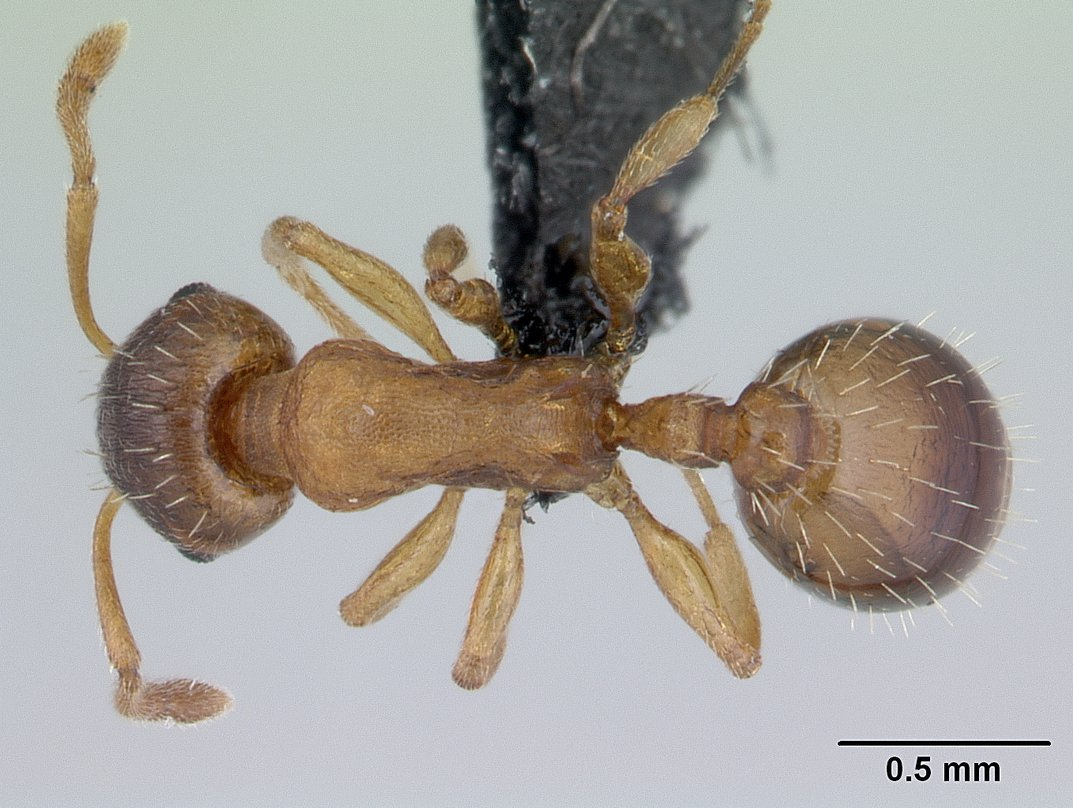 Dorsal view of ant Temnothorax nylanderi specimen casent0178771.